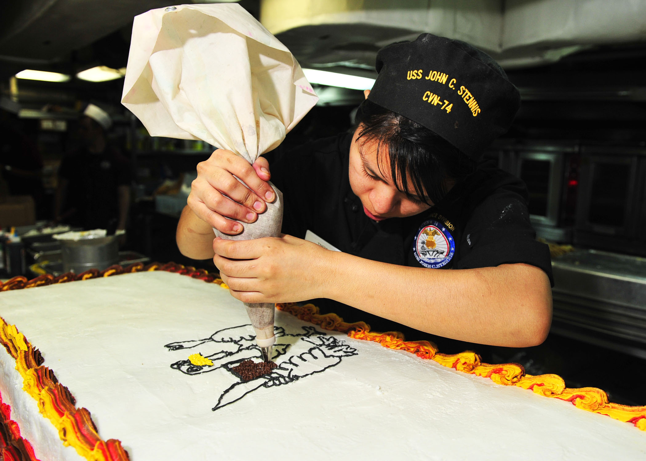 ARABIAN GULF(Nov. 23, 2011) Culinary Specialist Seaman Lindsey Ocampo, from Santa Ana, Calif., decorates a cake in preparation for Thanksgiving dinner aboard the Nimitz-class aircraft carrier USS John C. Stennis (CVN 74). John C. Stennis is deployed to the U.S. 5th Fleet area of responsibility conducting maritime security operations and support missions as part of Operation Enduring Freedom and New Dawn. (U.S. Navy photo by Mass Communication Specialist 3rd Class Dugan Flynn/ Released)